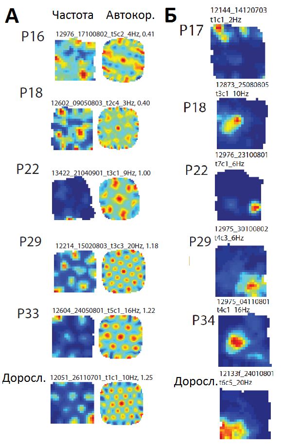 Rudiments of place cells and grid cells in rat pups